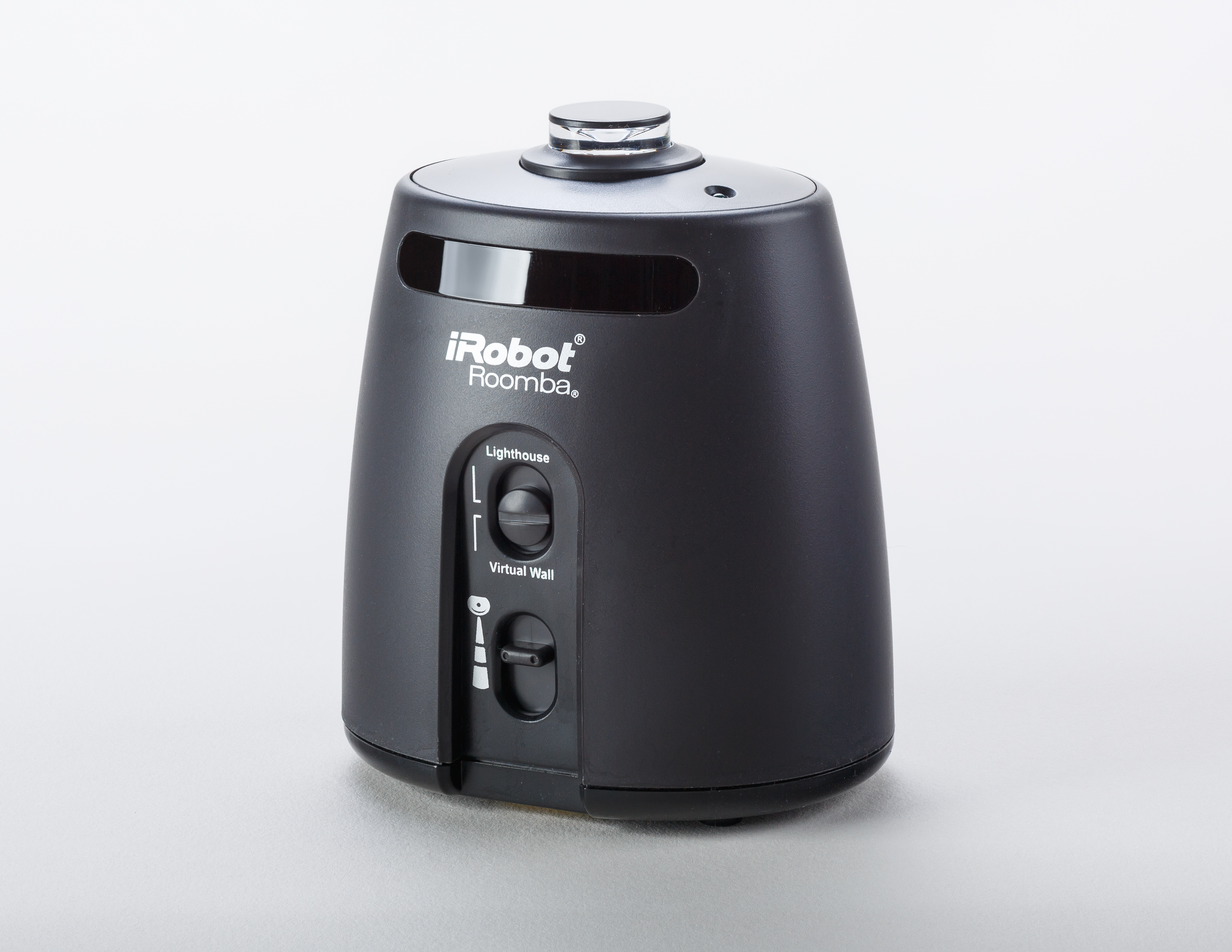 An iRobot model year 2014 "Virtual Wall and Lighthouse" for the use with the Roomba Hoover. Focus stacking of 9 pictures.